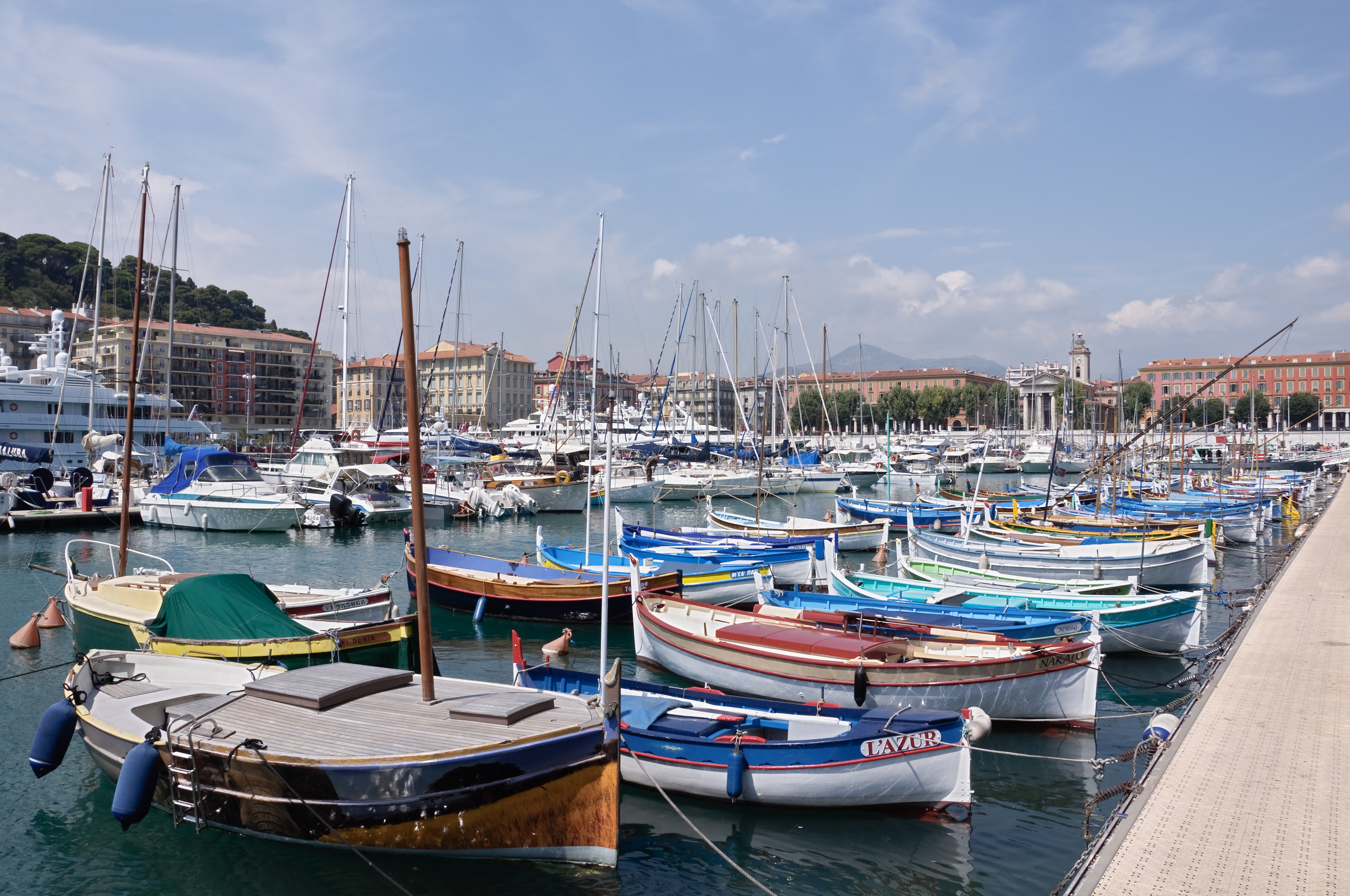 The port of Nice, on the Mediterranean coast (French Riviera). In the background, the church Notre-Dame-du-Port (= 'Our Lady of the Harbour').